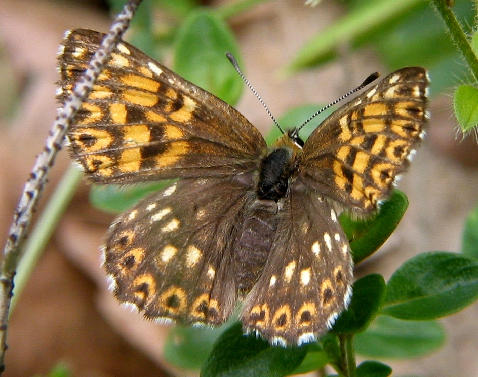 Hamearis lucina - Google Maps - Google Earth A clearing in a small forest along the Dâmboviţa River; Village of Ungureni, Commune of Măneşti; Dâmboviţa County, Romania.